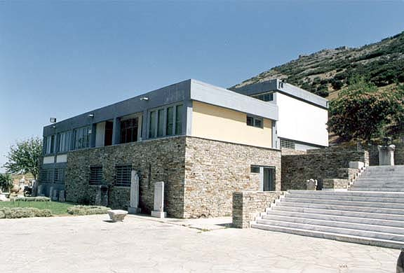 External view, image from the Archaeological Museum, Philippi, East Macedonia, Greece